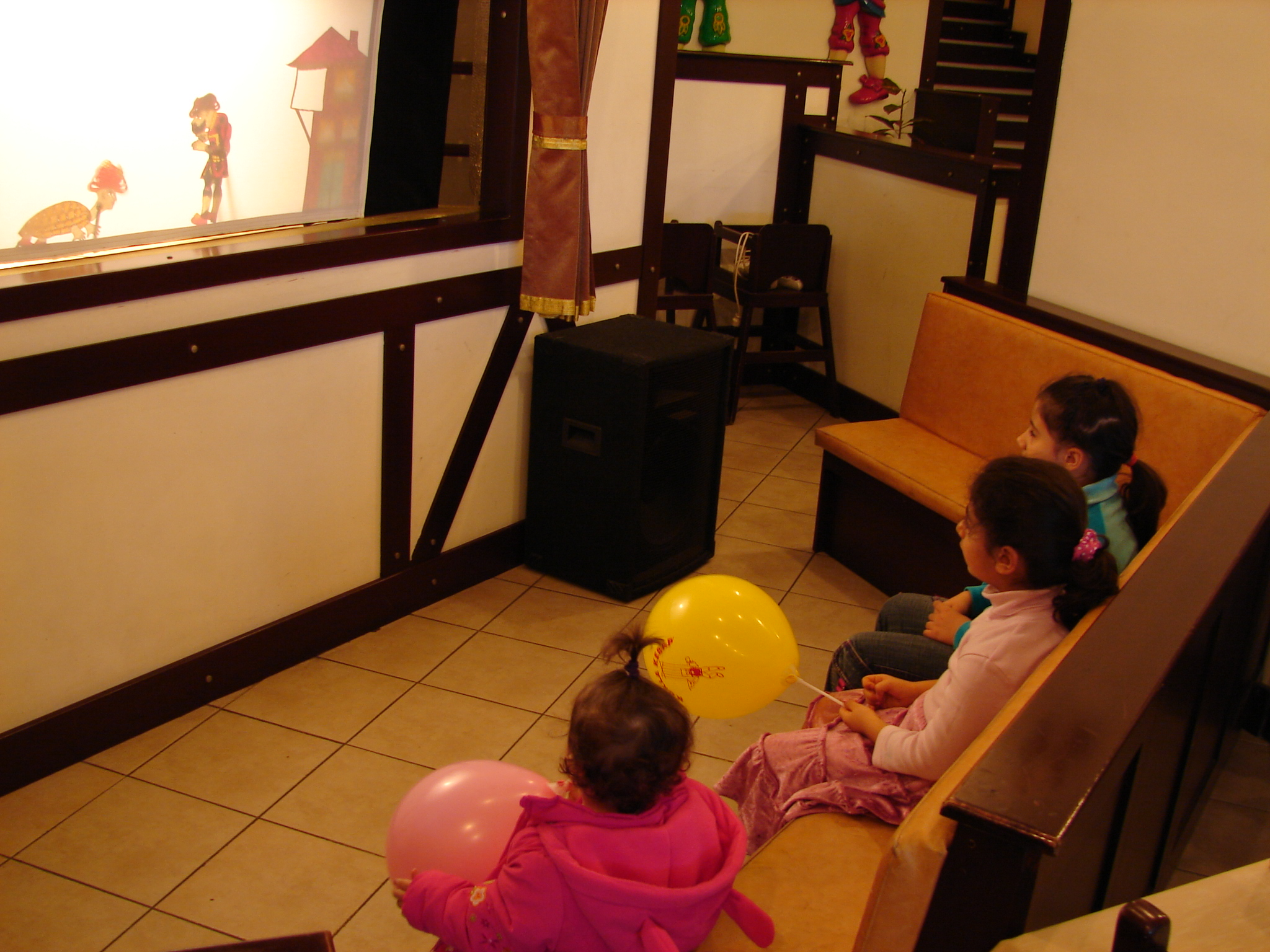 Karagoz theatre.